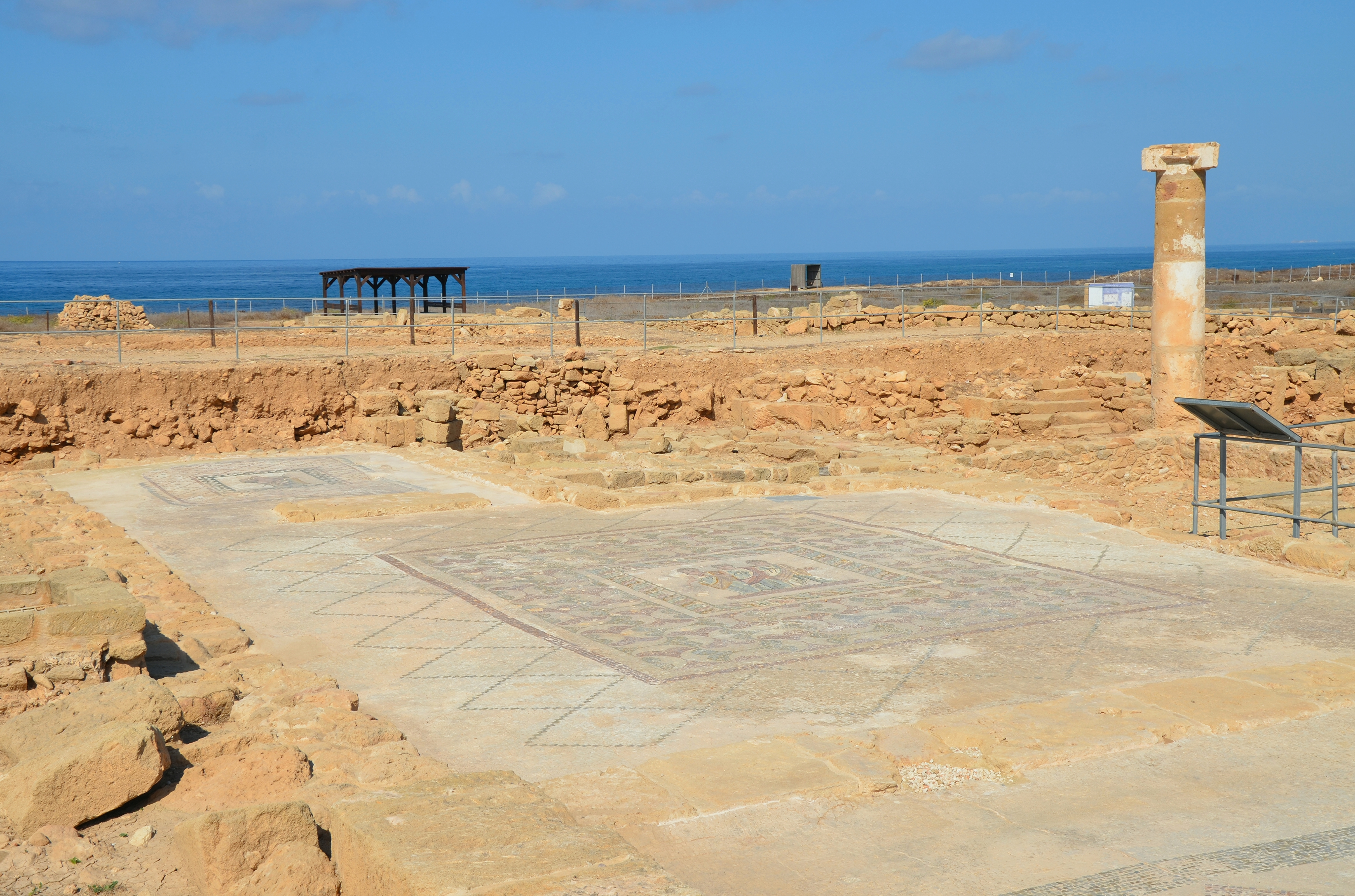 The House of Theseus, mosaic with Aphrodite and mosaic with the Three Horae (Dike, Eunomia and Eirene), West Wing, Paphos Archaeological Park, Cyprus